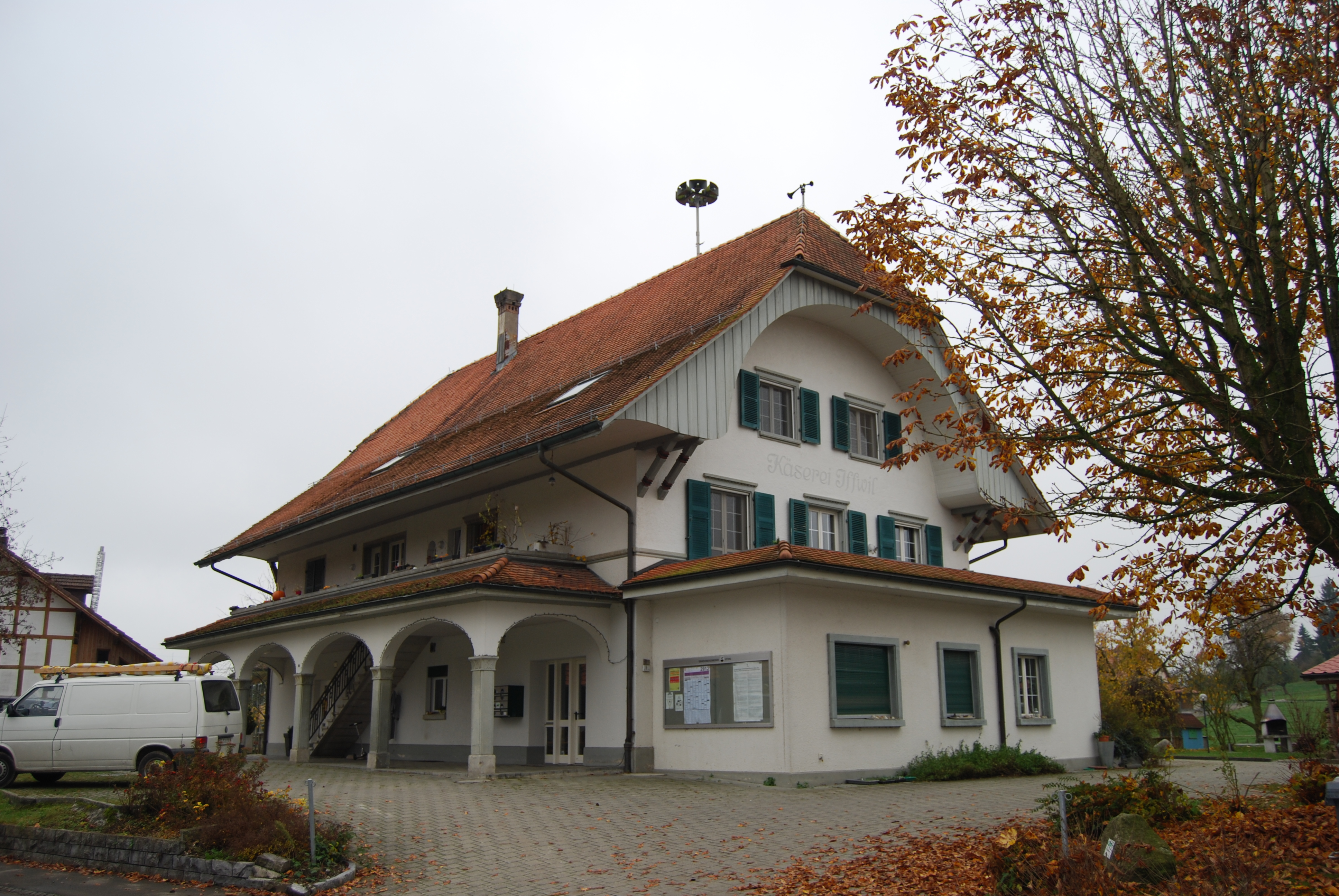 Iffwil, canton of Bern, SwitzerlandEsperanto: Iffwil, Kantono Berno, Svislando